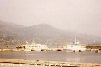 Ohrid harbor in July 1979